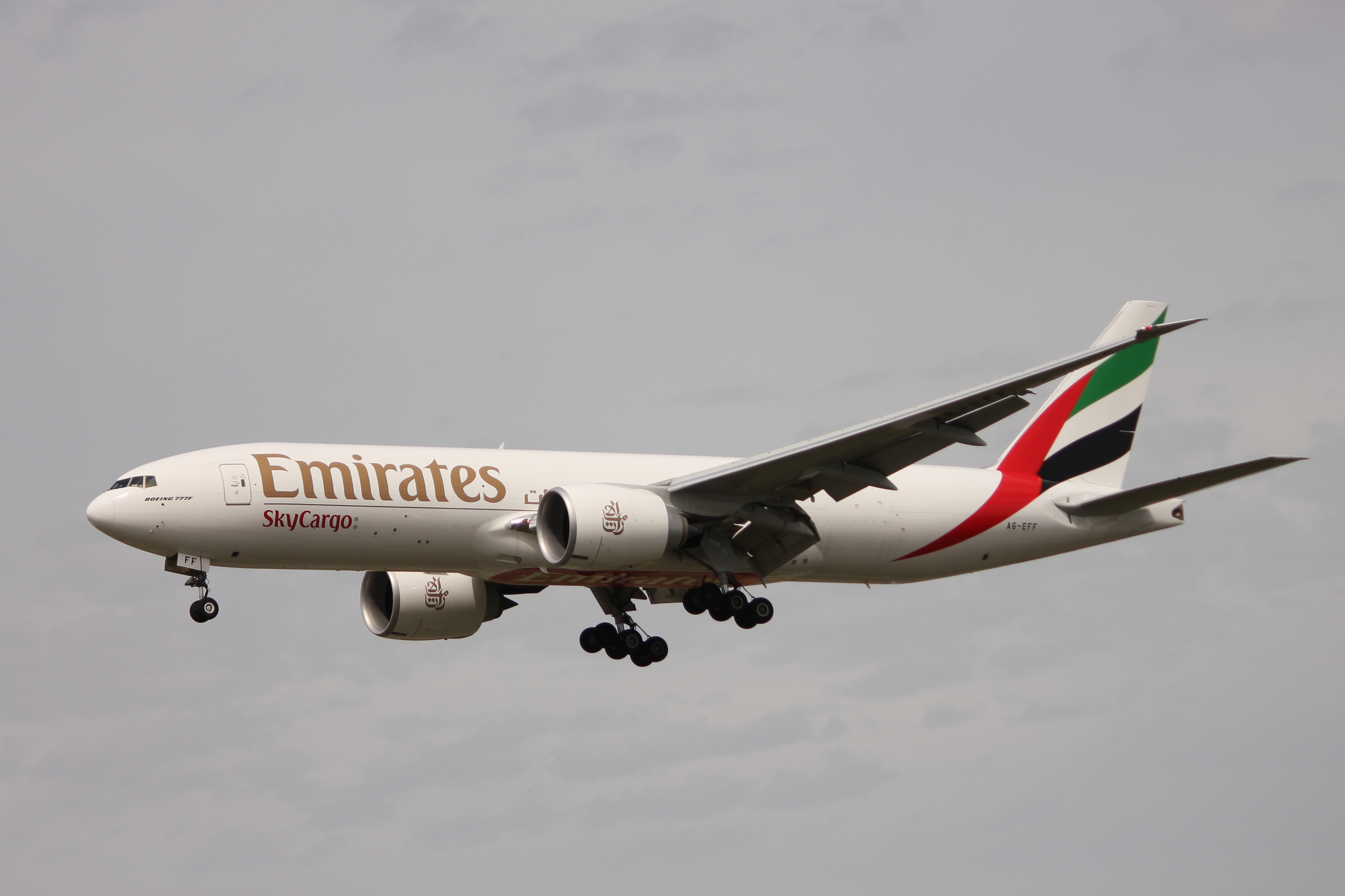 A 777F of Emirates landing at Frankfurt Airport